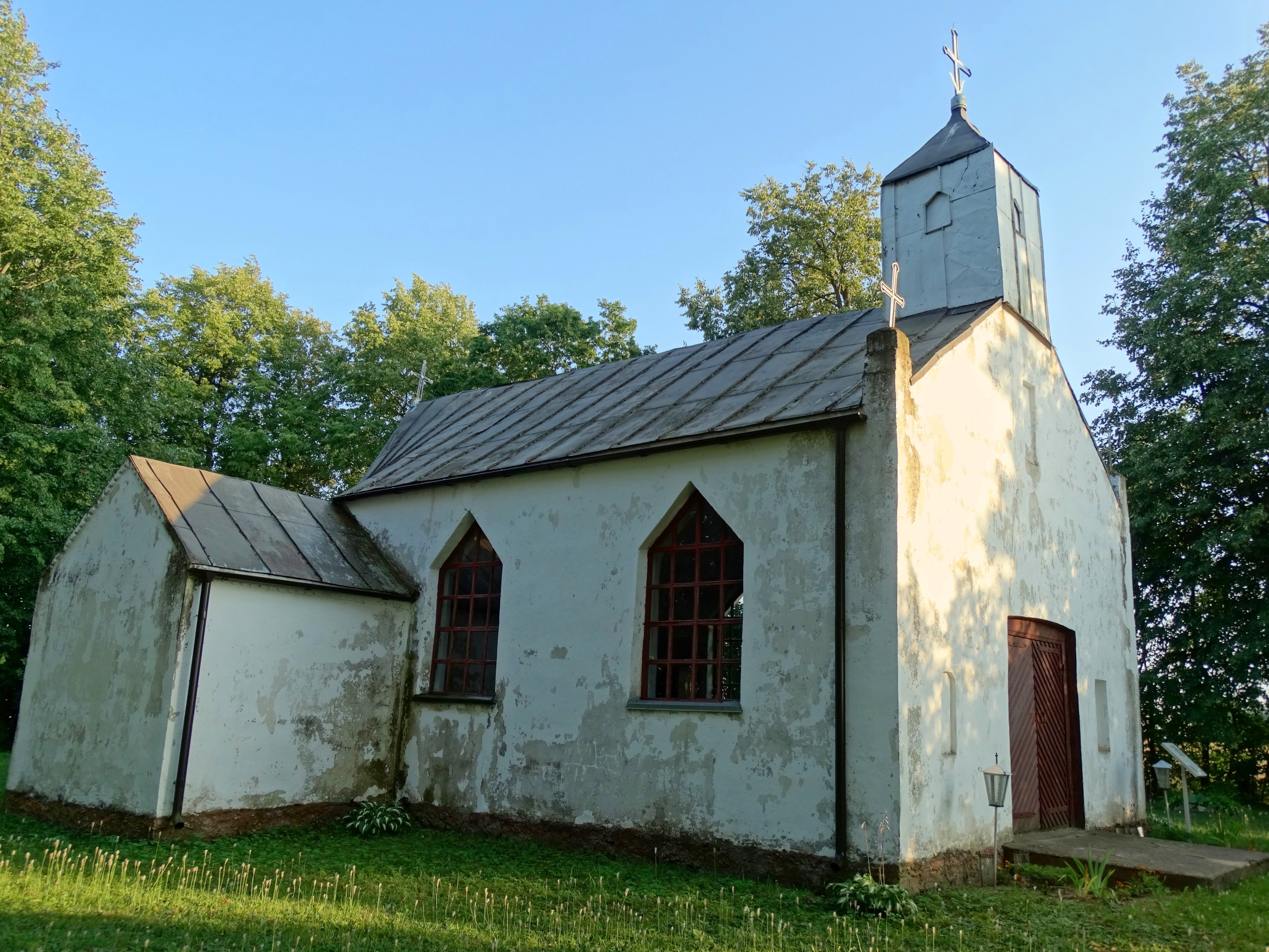 Chapel, Mergiūnai, Joniškis district, Lithuania